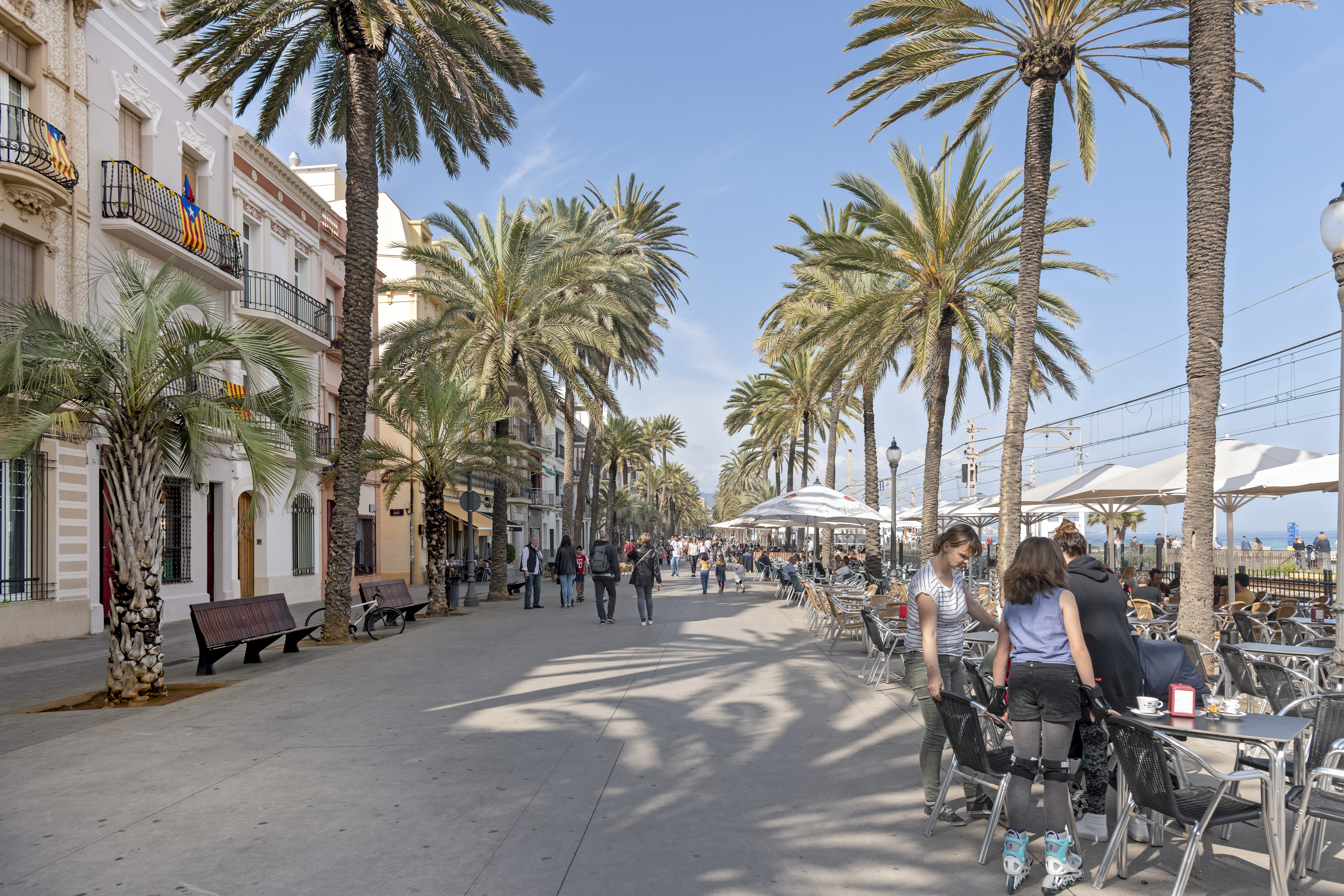 Boardwalk Promenade of 'La Rambla' in Badalona